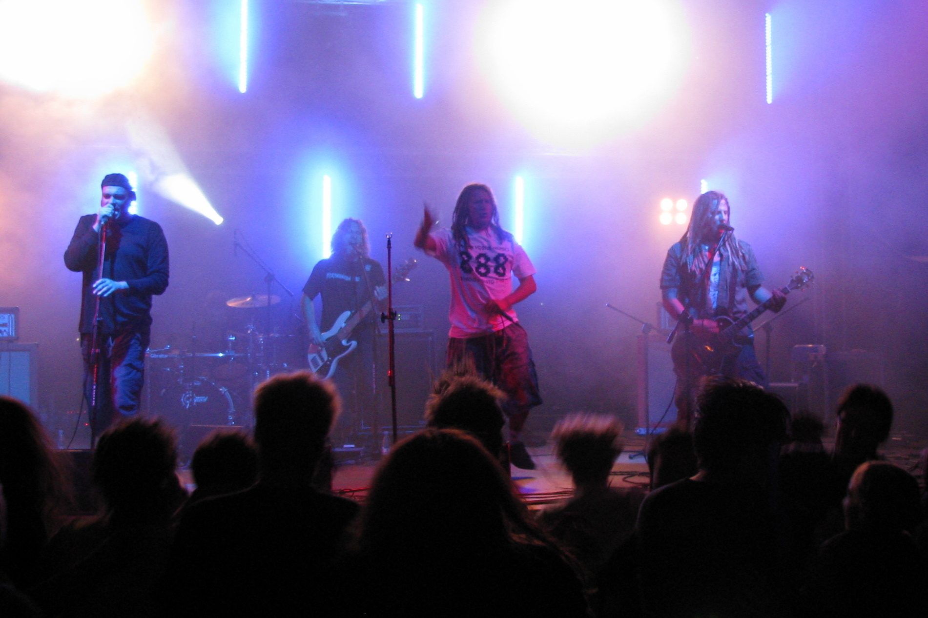 2Tm2,3 band in concert